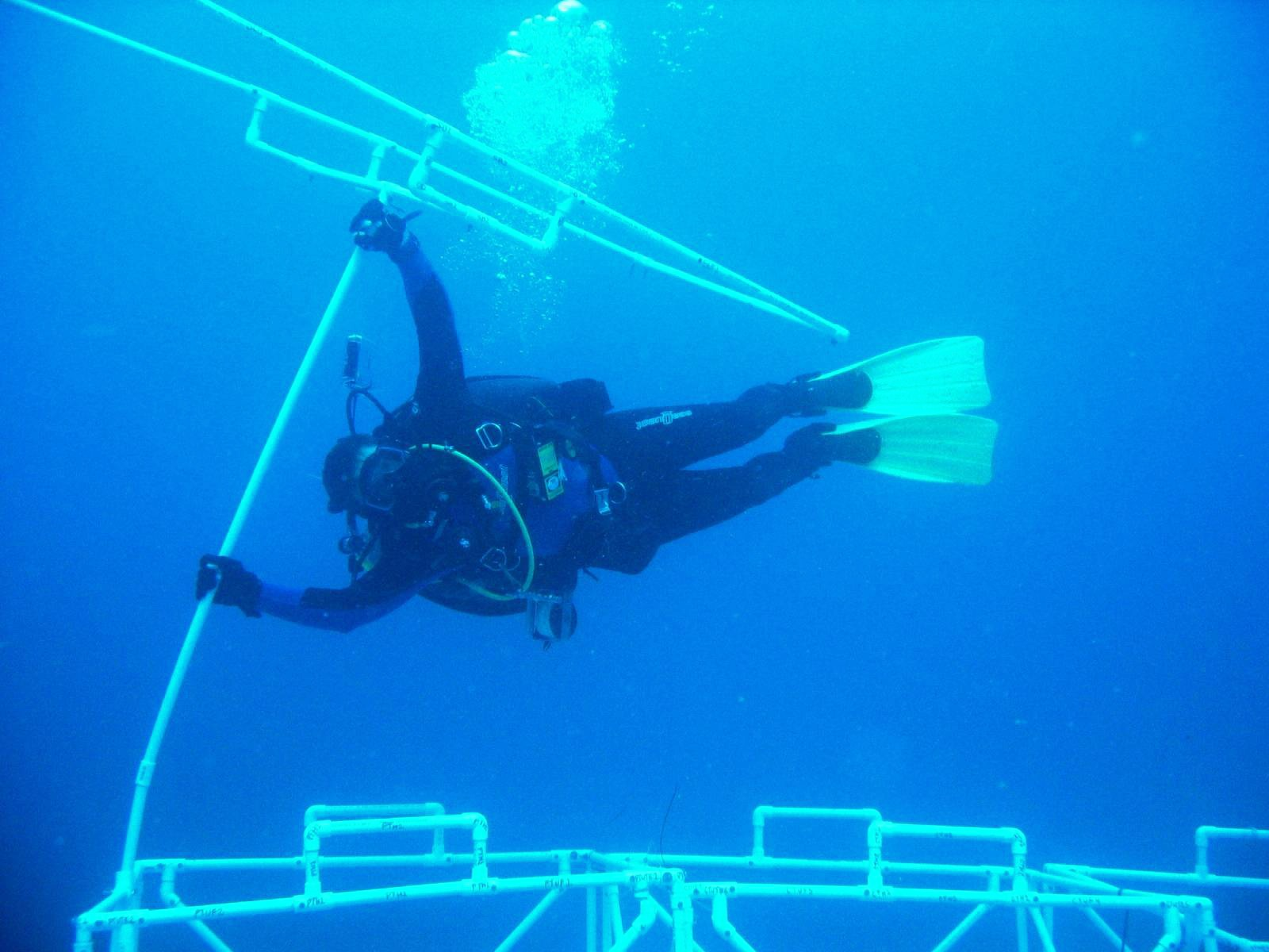 Astronaut/aquanaut Doug Wheelock appears to be flying as he egresses waterlab in the waters off the Florida Keys as part of NEEMO 6 activity.